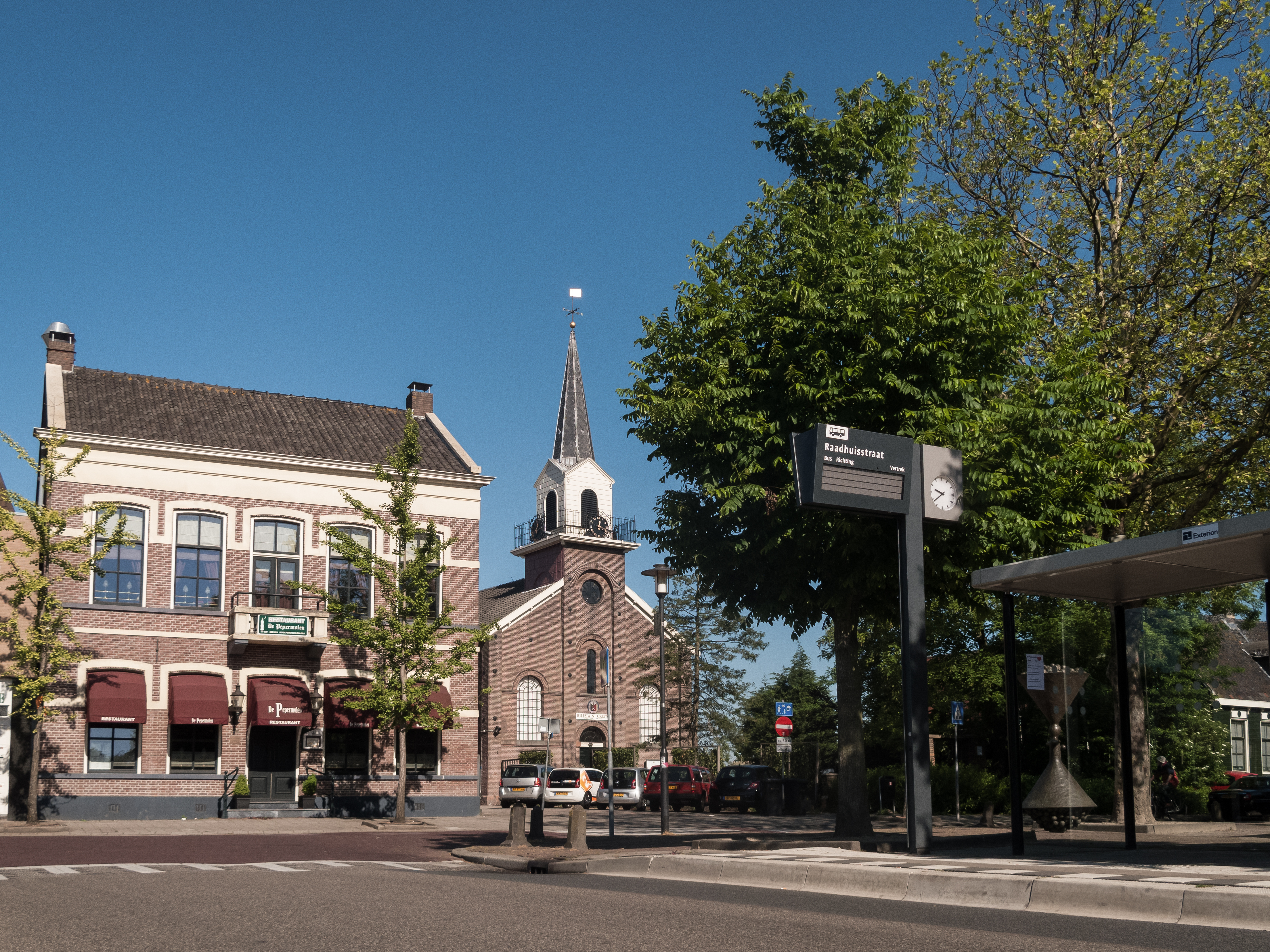 Landsmeer, restaurant de Pepermolen and reformed church